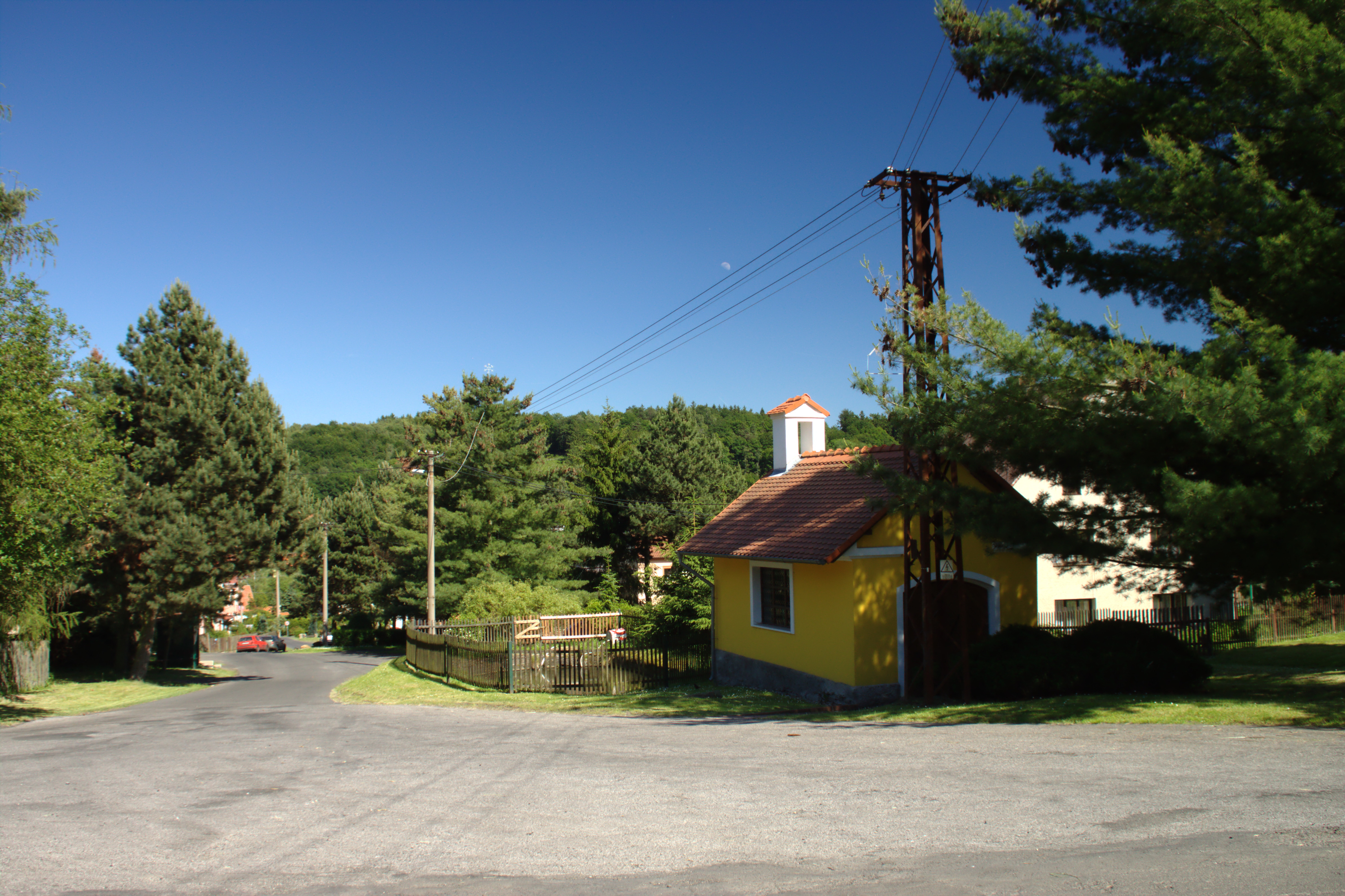 A common in the village of Tašov, Ústí Region, CZ